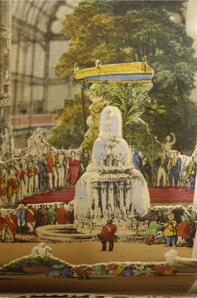 Lane's telescopic view, of the ceremony of Her Majesty opening the Great Exhibition, of All Nations Location: The George Peabody Library, The Sheridan Libraries, The Johns Hopkins University Call No.: 606 L248 1851 From the JHU Libraries Catalog: This 'Telescopic View' is made of printed paper and card, and is supplied in a slip-in card box. When you take the view out of the box, it opens with a concertina action, and you place it on a flat surface. When you view the internal scene through the little peep hole in the cover, you see a three dimensional view of the inside of the Crystal Palace in 1851, and the grand opening by Queen Victoria.